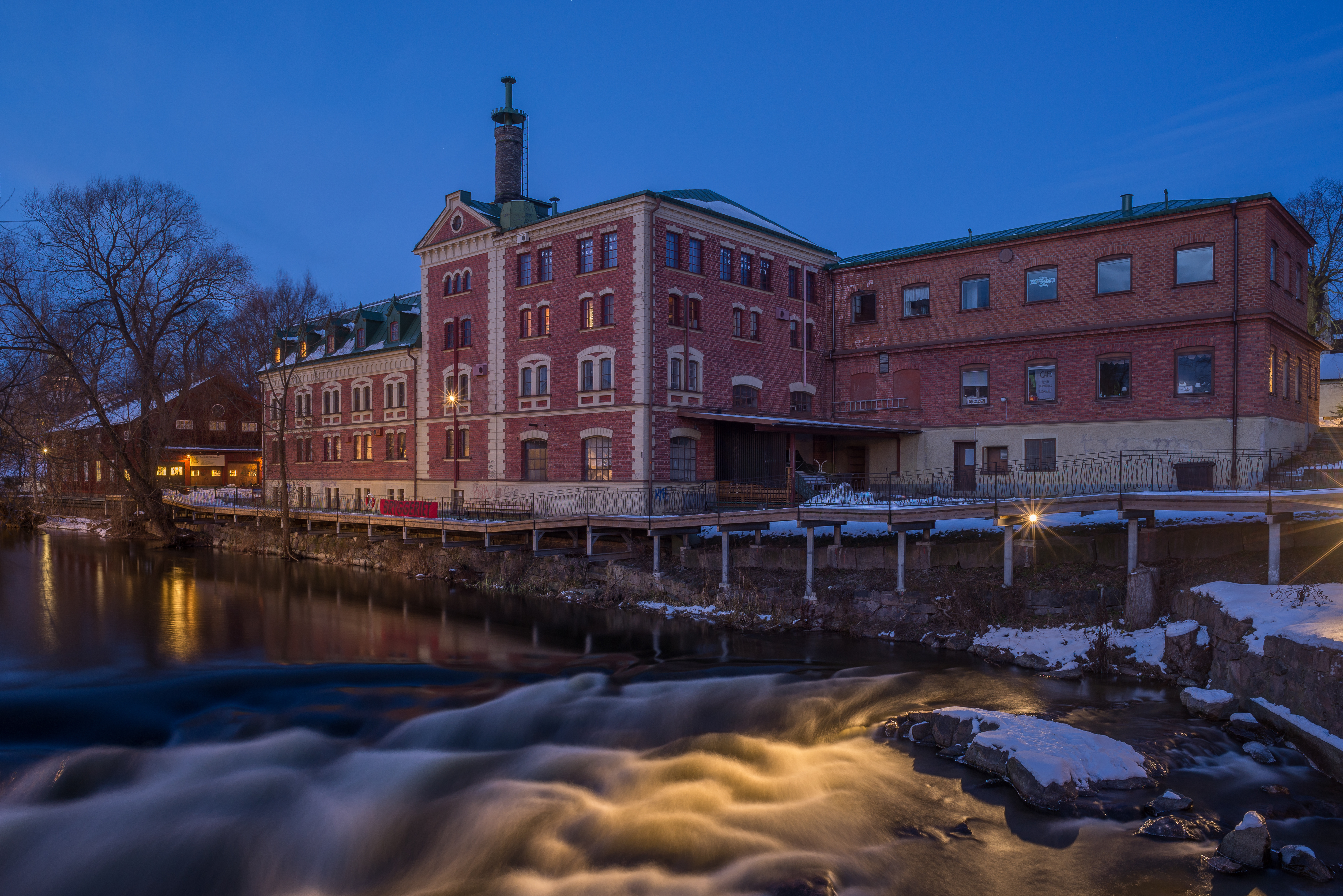 Former brewery in Nyköpings, Sweden.